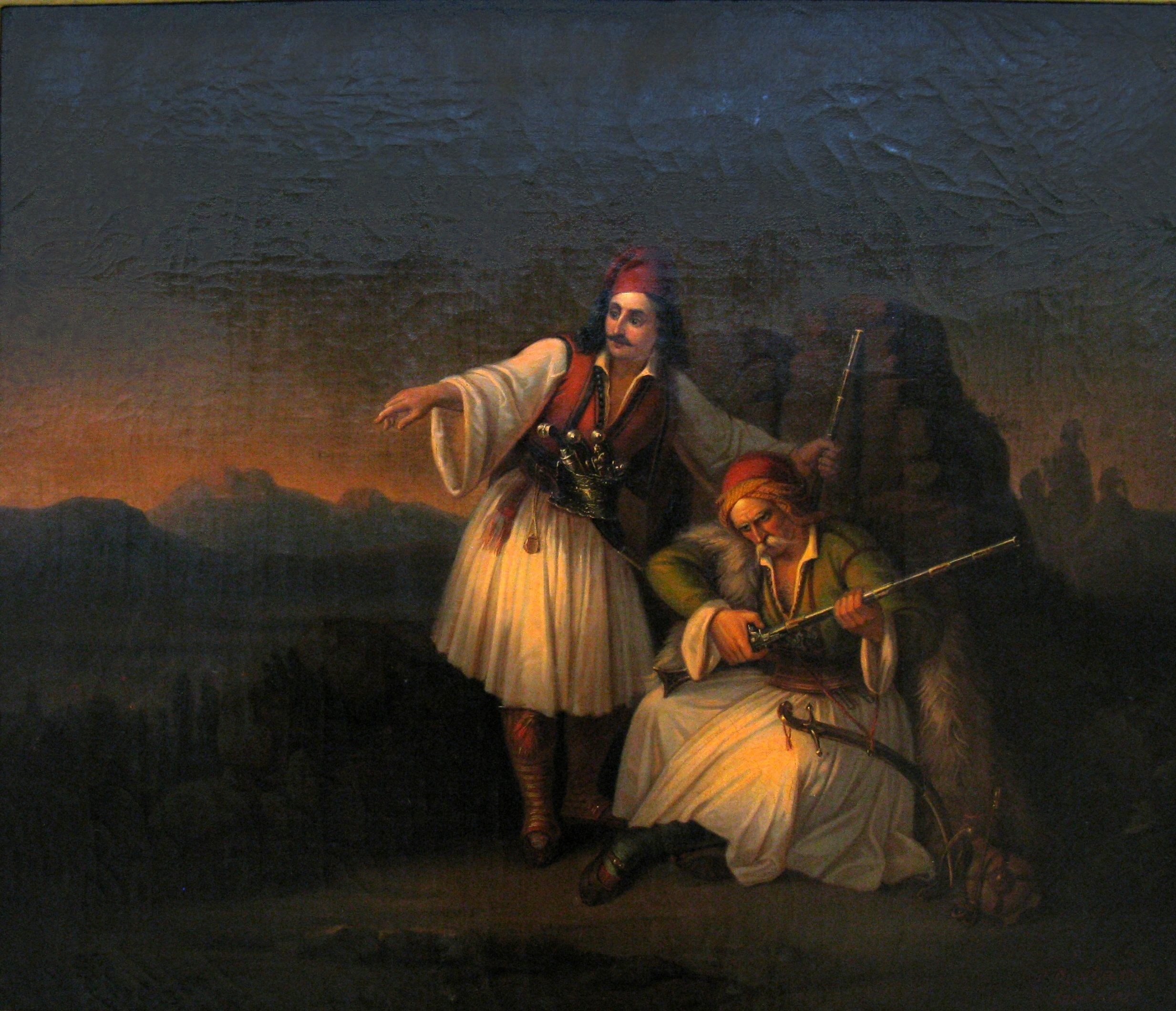 Theodoros Vryzakis (1819-1878) Two Warriors, 1855, oil on canvas (Donation of the University of Athens)